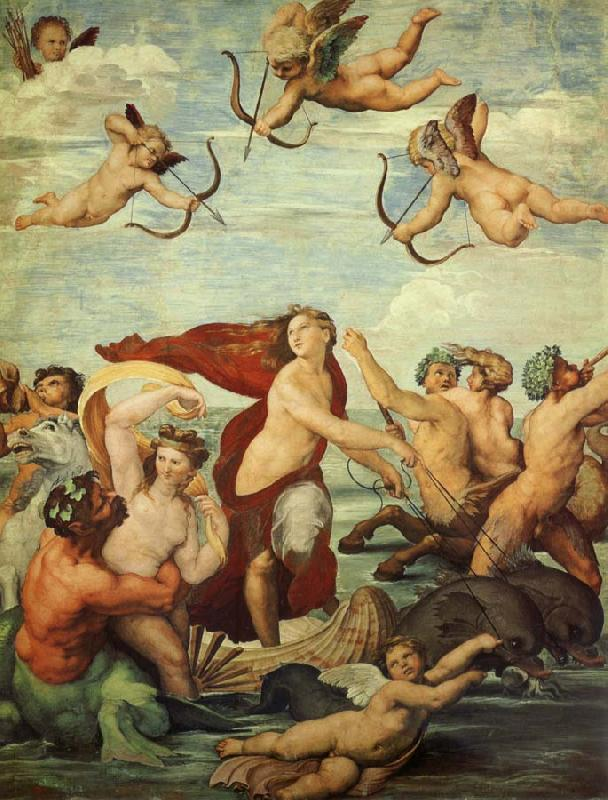 Raphael's Galatea